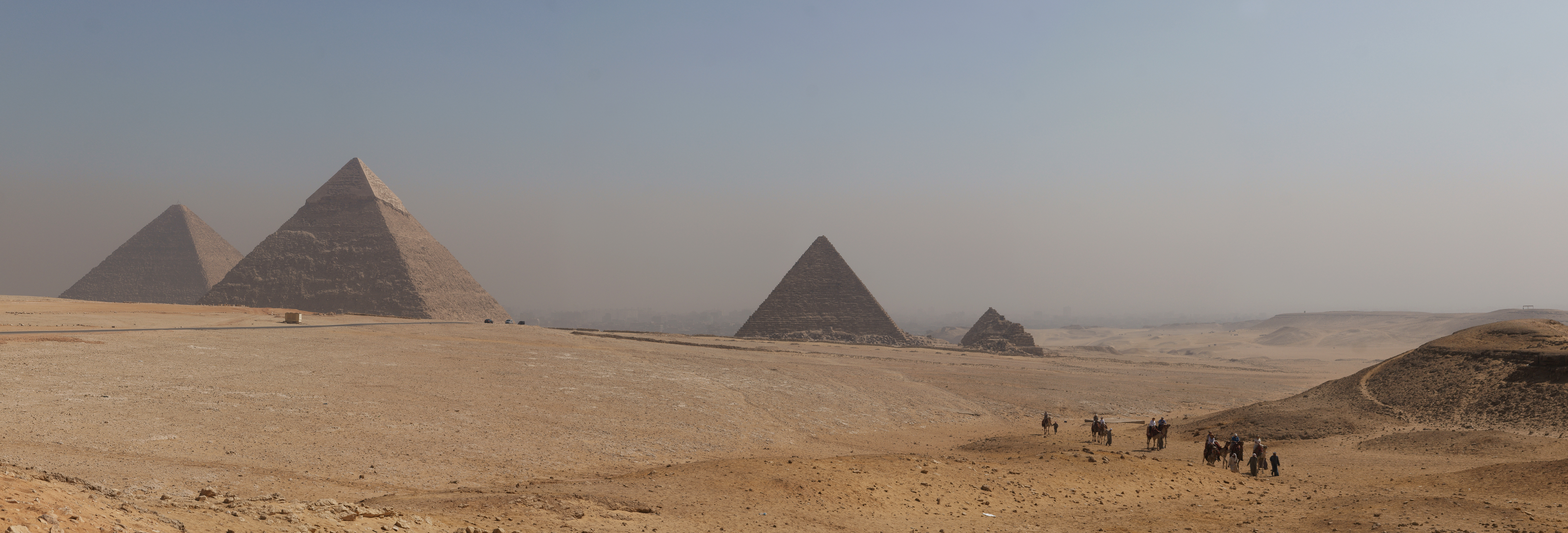 Panorama of All pyramids of Giza.